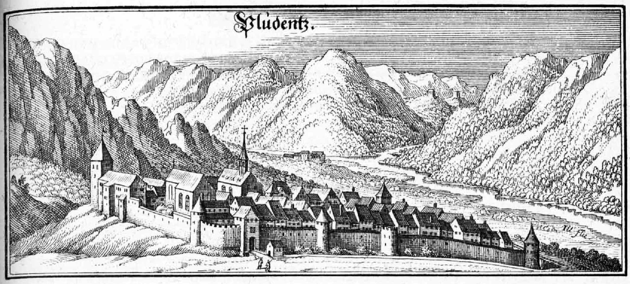 Copper engraving of the village Bludenz, Vorarlberg, Austria. In the background two castle can be recognized. It is believed that these are the castle ruins "Diebsschloessle" (also Loruenser Schloessle, near Loruens) and the castle ruins "Valcastiel" (near Vandans).